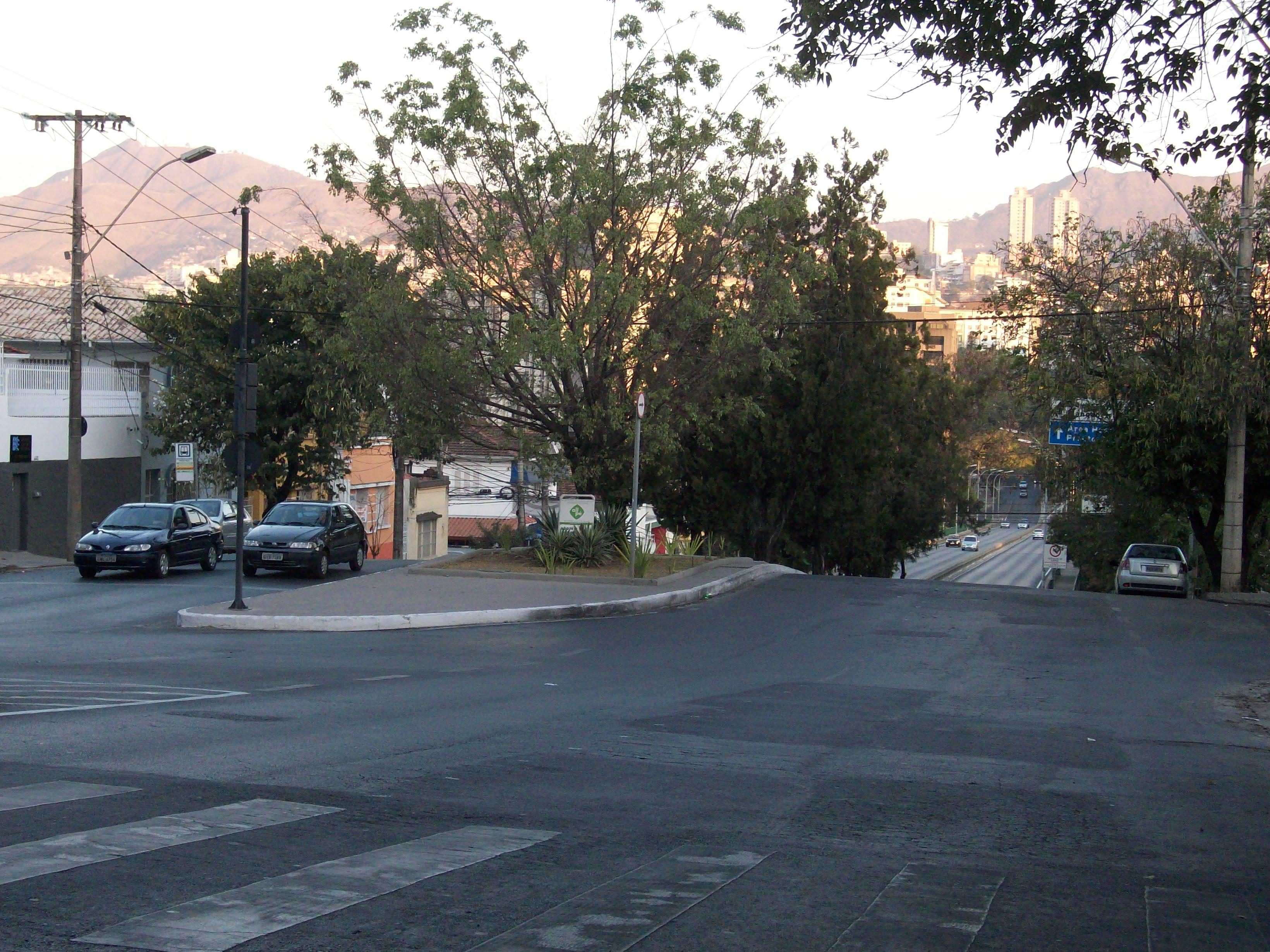 Francisco Sales Avenue, Belo Horizonte, Minas Gerais, Brazil.